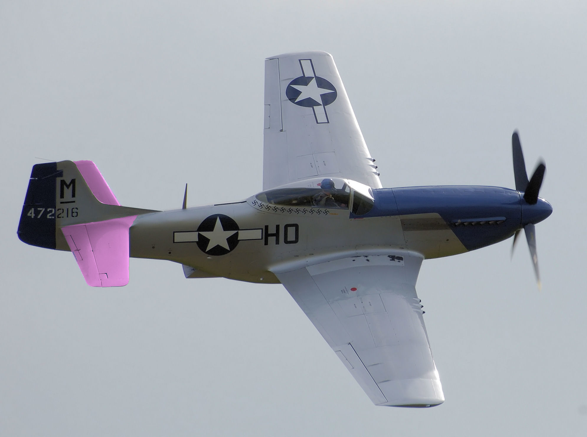 Preserved North American P-51D-20 (472216/HO-M, G-BIXL, Miss Helen) performing aerobatics at Kemble Airport Open Day, Gloucestershire, England, on 9th September 2007. Built in 1944. (An area has been coloured pink for the Tailplane article, the uncoloured picture is on Commons in Category:North American P-51 Mustang, go to to see it. Photographed by Adrian Pingstone and placed in the public domain.